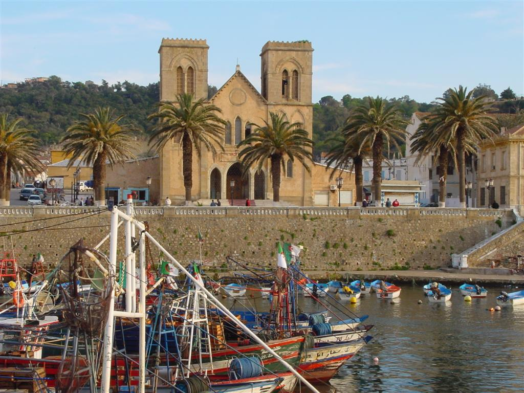 The old fishing harbor at El Kala facing the decomissioned Saint Cyprien Church.